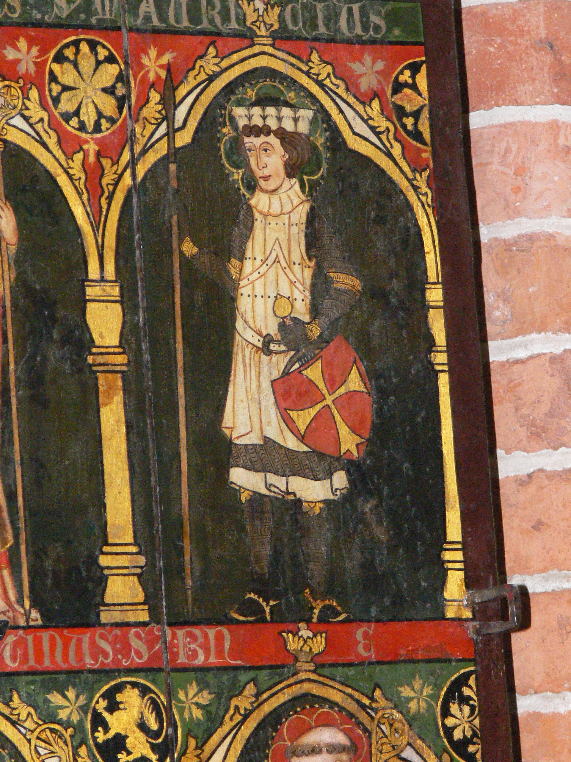 Løgumkloster church. Gothic reliquiary: Saint Maurice